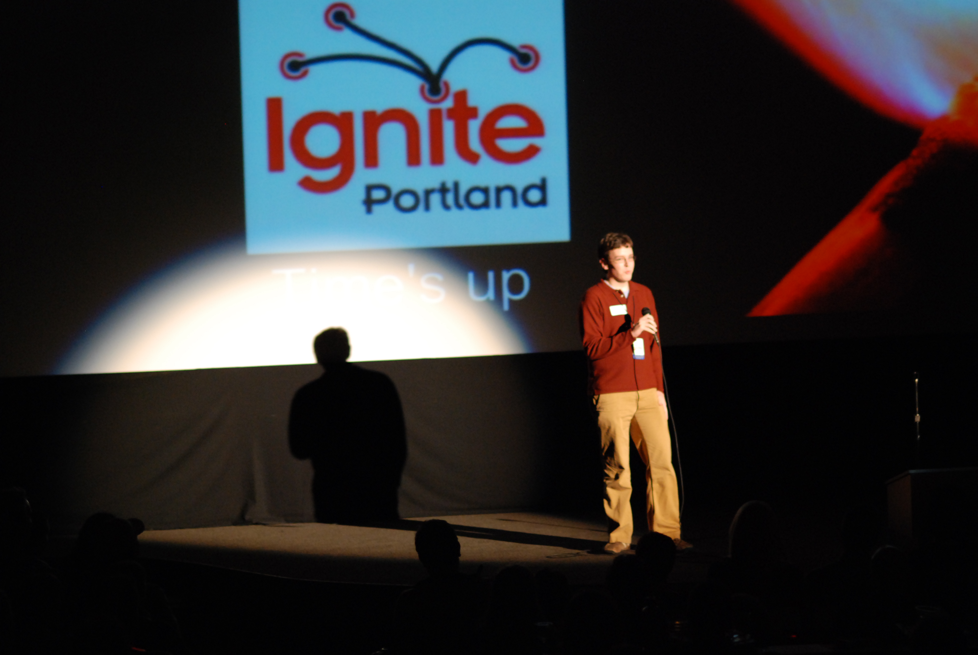 The end of the fifth annual Ignite Portland.